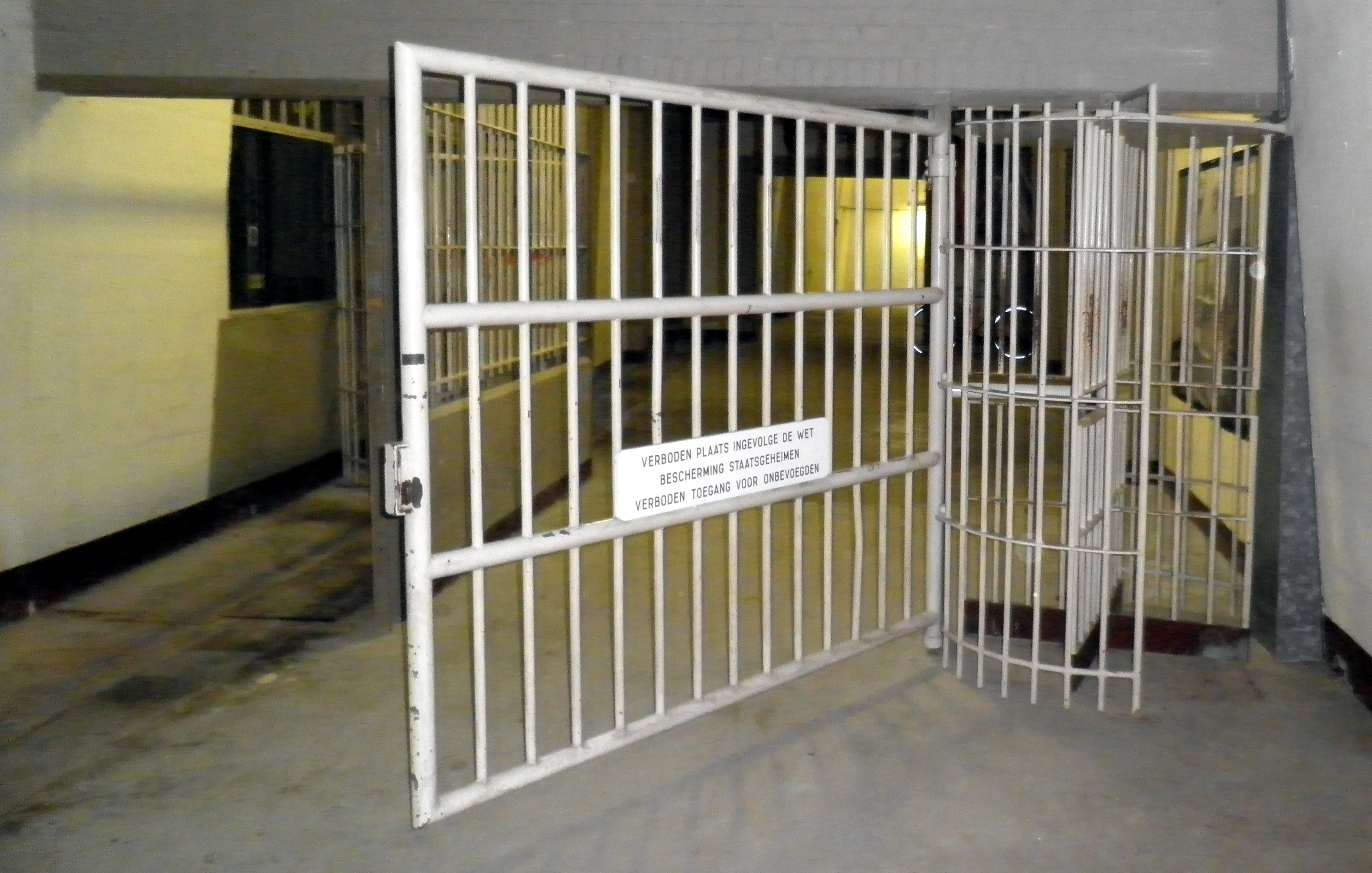 NATO headquarters Cannerberg - Entrance (inside)